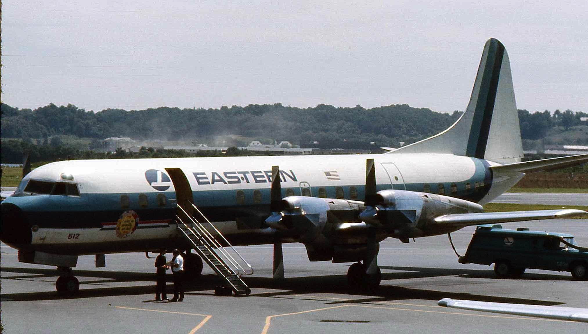 Eastern Air Lines Lockheed L-188 Electra N5512 c/n 1017 was the third Electra to be delivered on November, 25, 1958.